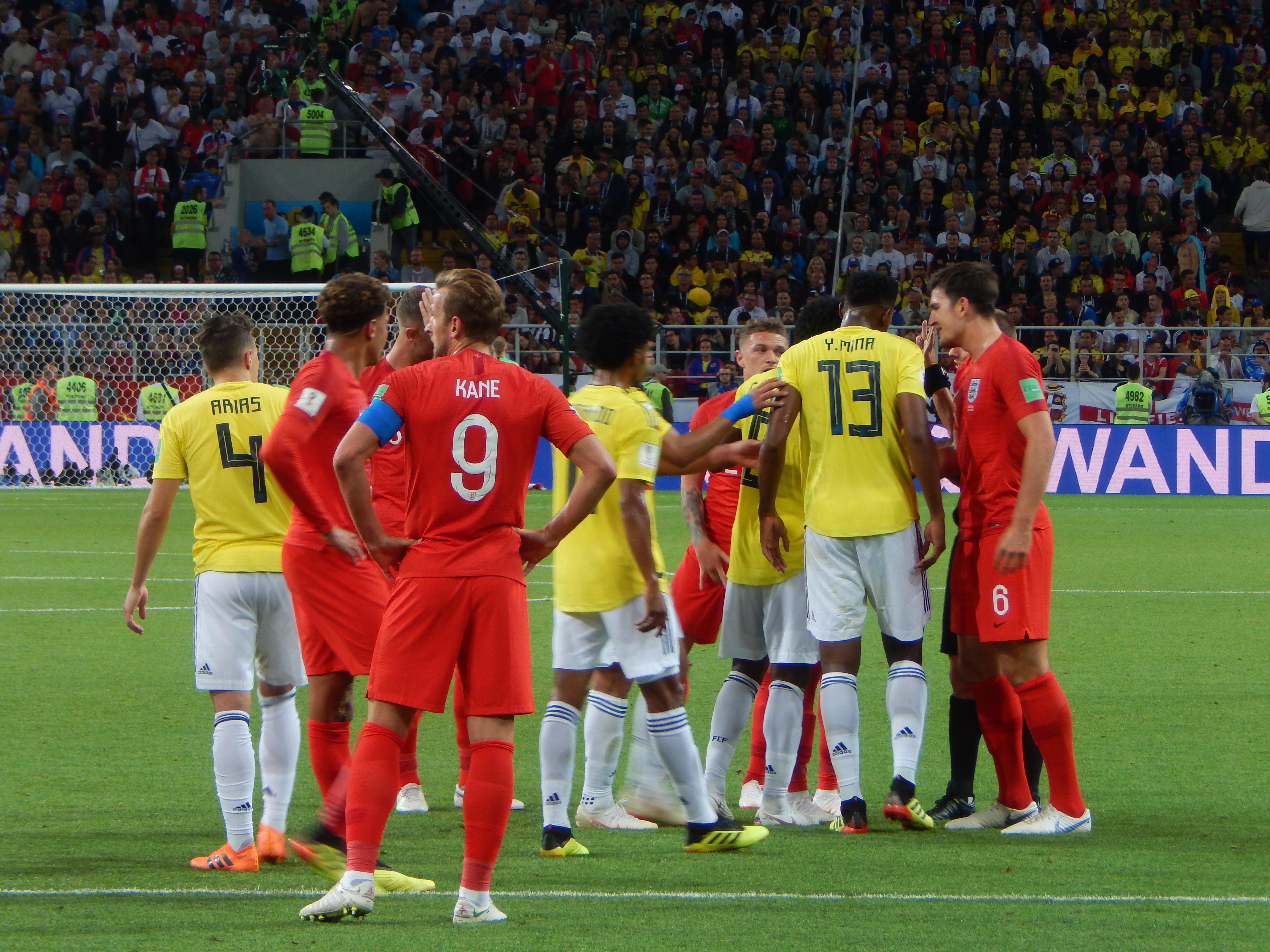 FIFA World Cup 2018, Round of 16, Colombia vs. England